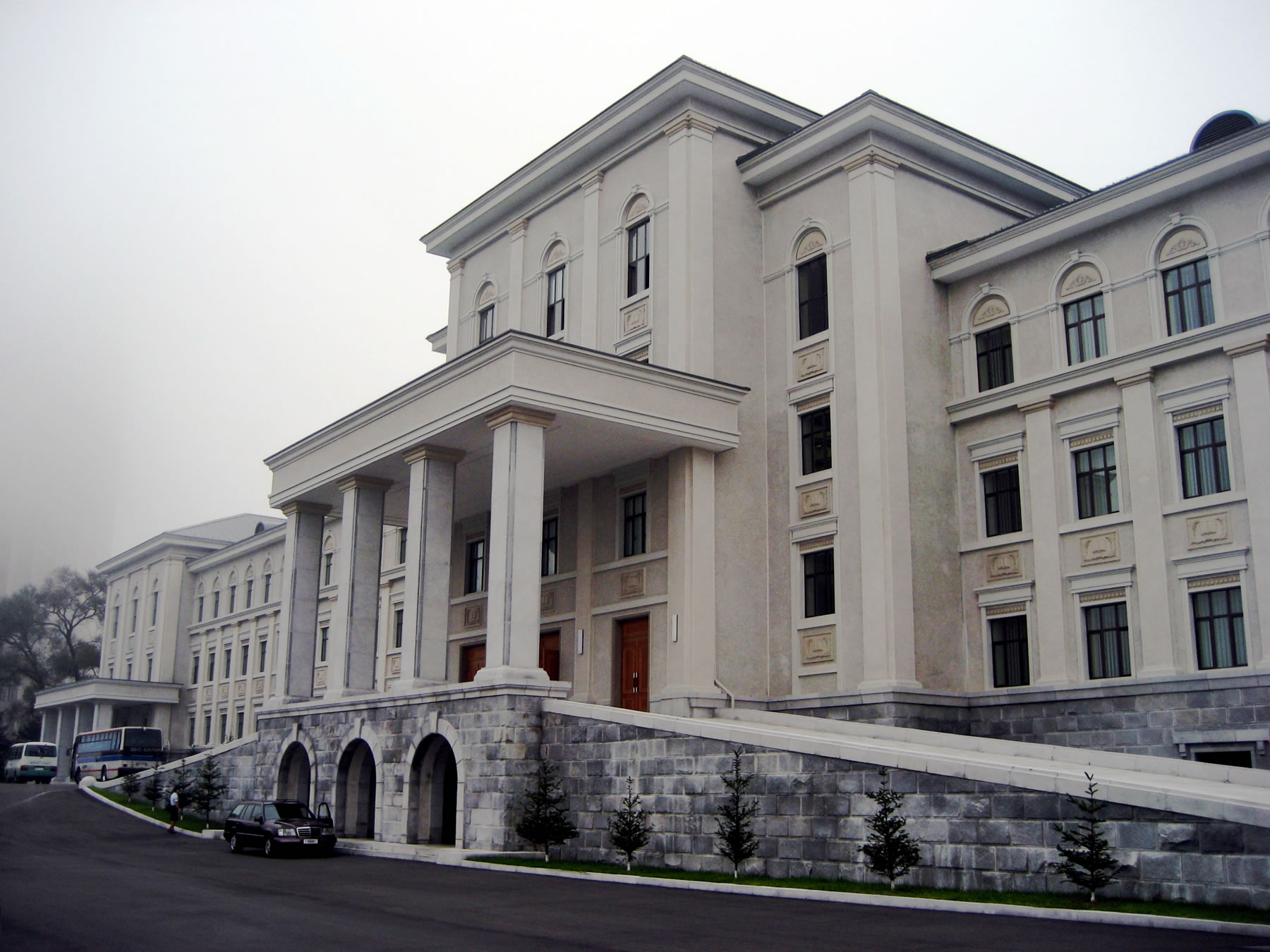 Kim Il-sung University in Pyongyang